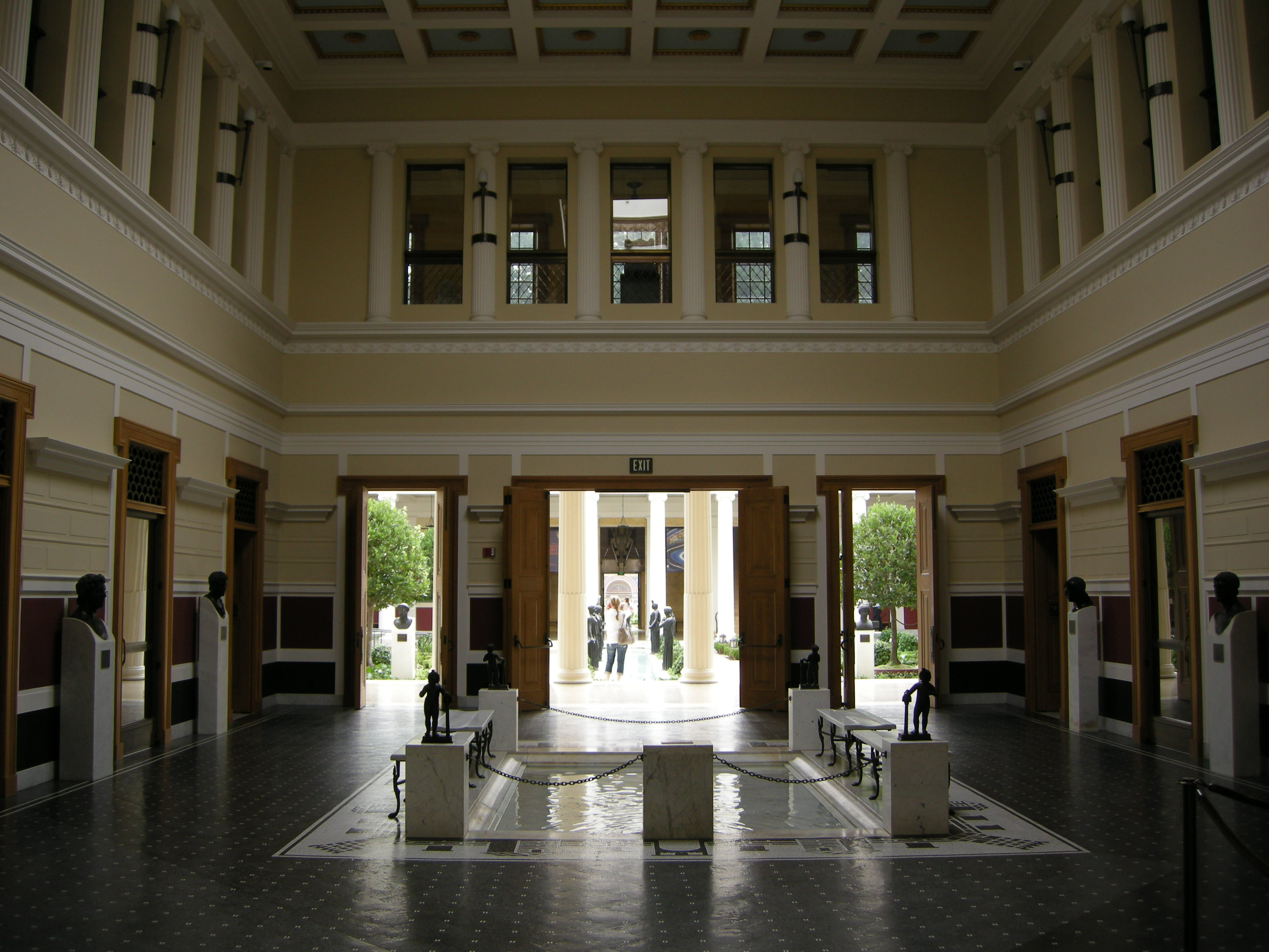 Impluvium fountain in the Getty Villa — in Pacific Palisades, Los Angeles.